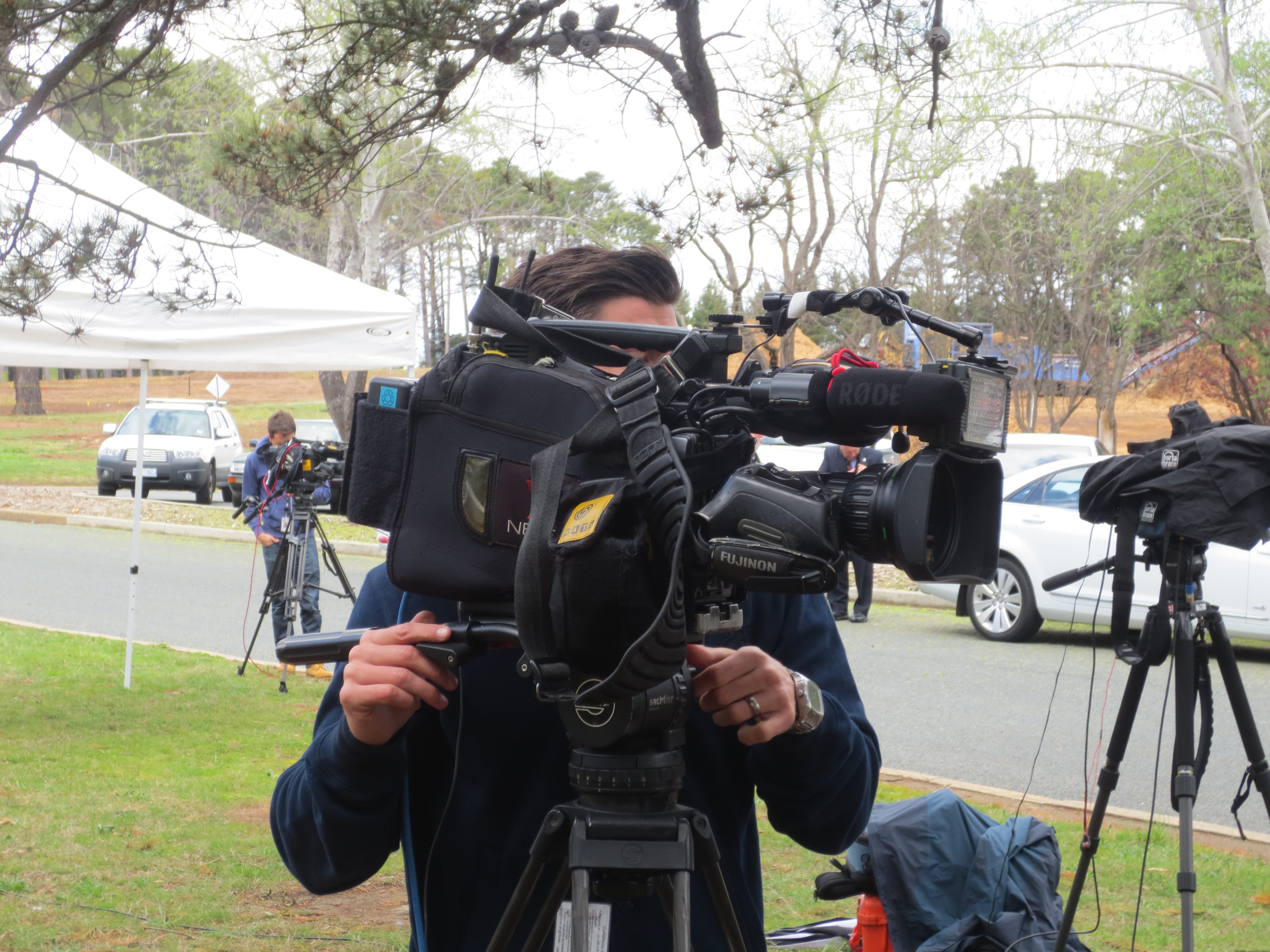 Outdoor broadcasting at Government House Canberra filming for TV broadcast